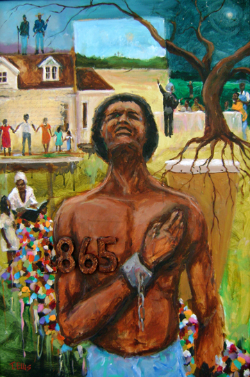 Free at last includes depictions of Buffalo soldiers, Harriet Tubman, the year "1865", a mighty oak, and in the background, their heads bowed in prayer, the figures of the current owner and restorer of the house, Sam Collins III, and his wife and children. Part of "Our History, Heritage, and Culture: An American Story, the Art of Ted Ellis"